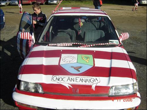 Taken at the annual Knockananna festival.